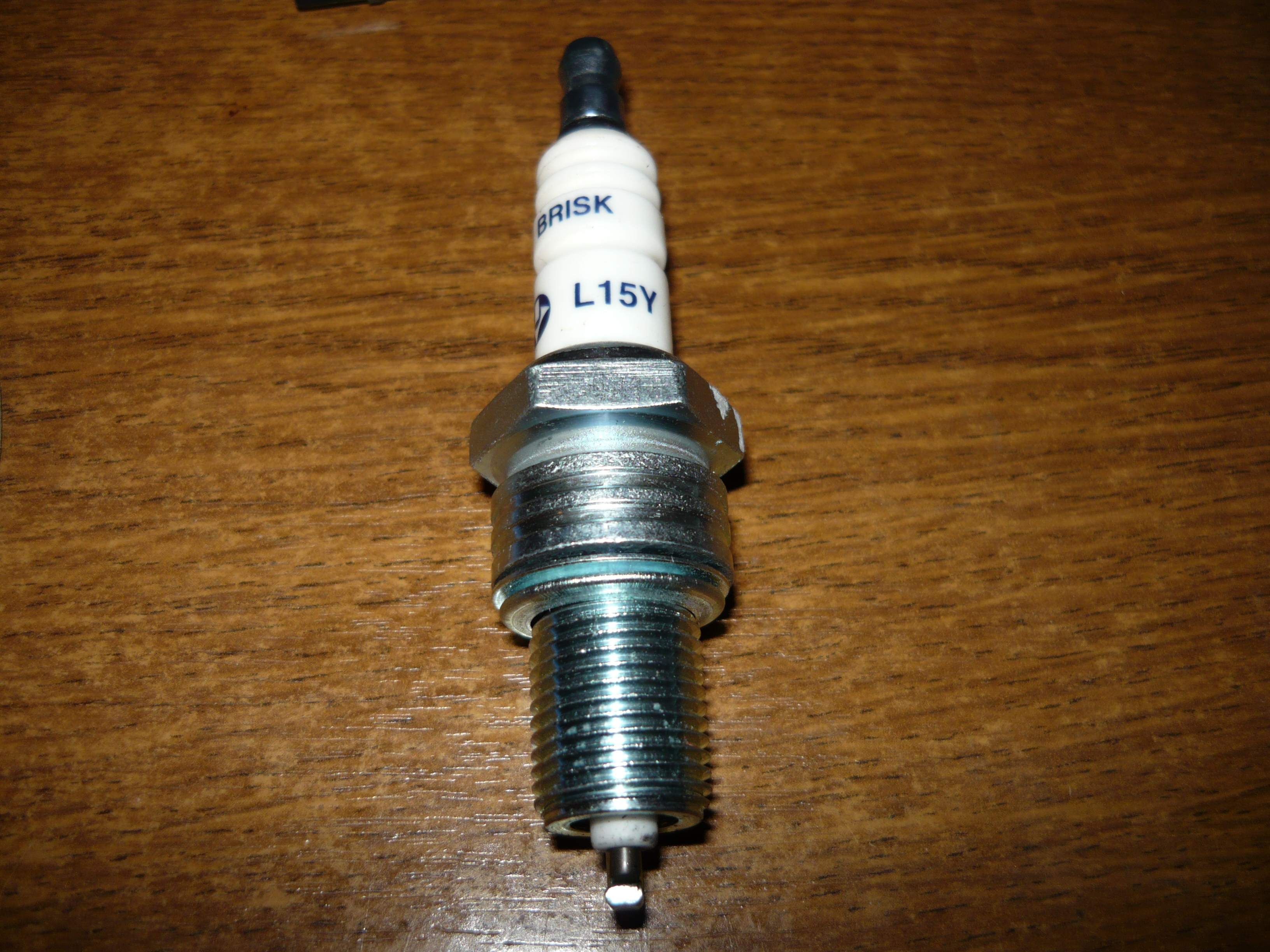 Spark plug